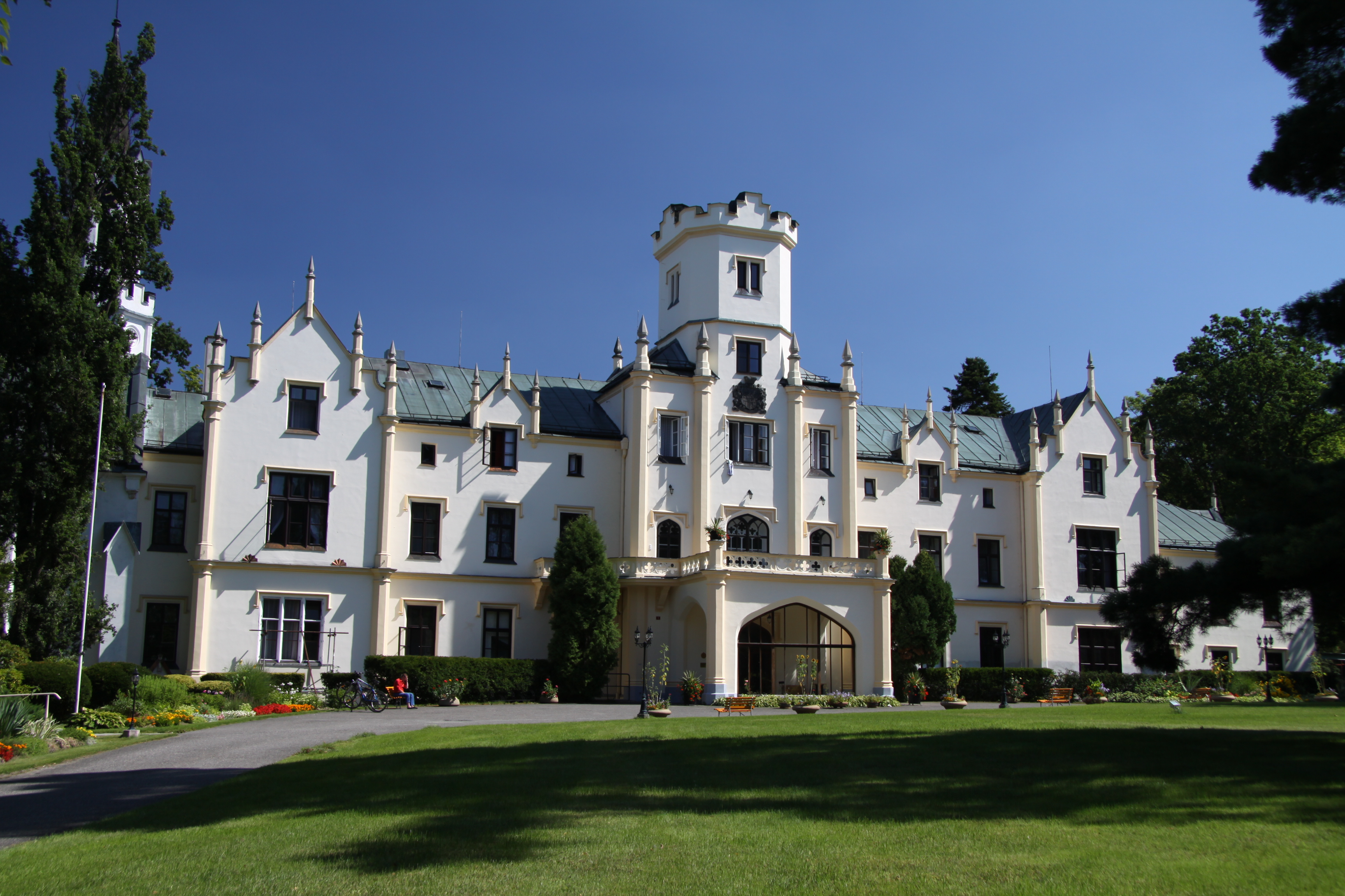 Sanatorium and spa in Vráž village, Písek District, Czech Republic